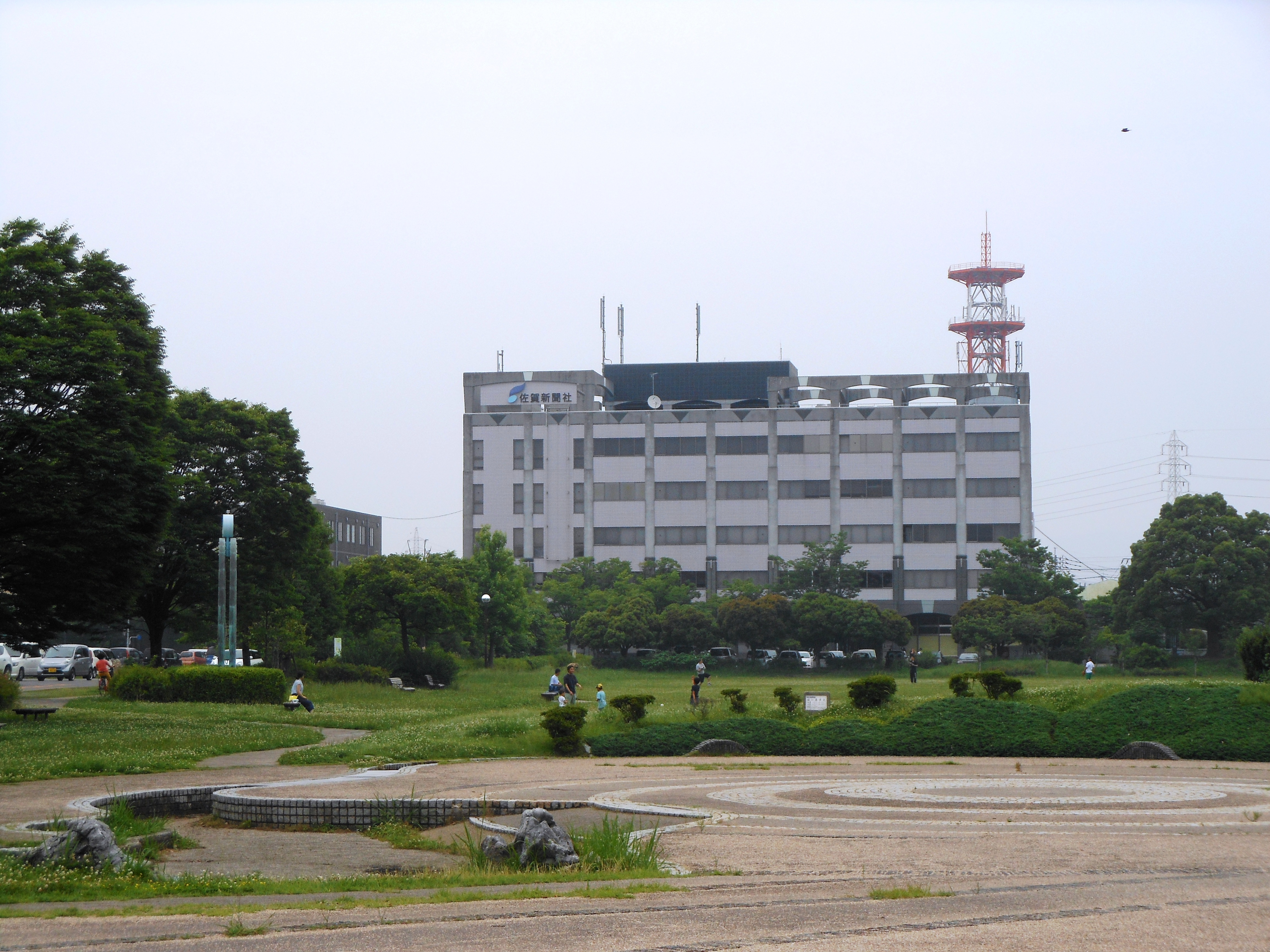 Square of Don-don-don No Mori, Saga city.